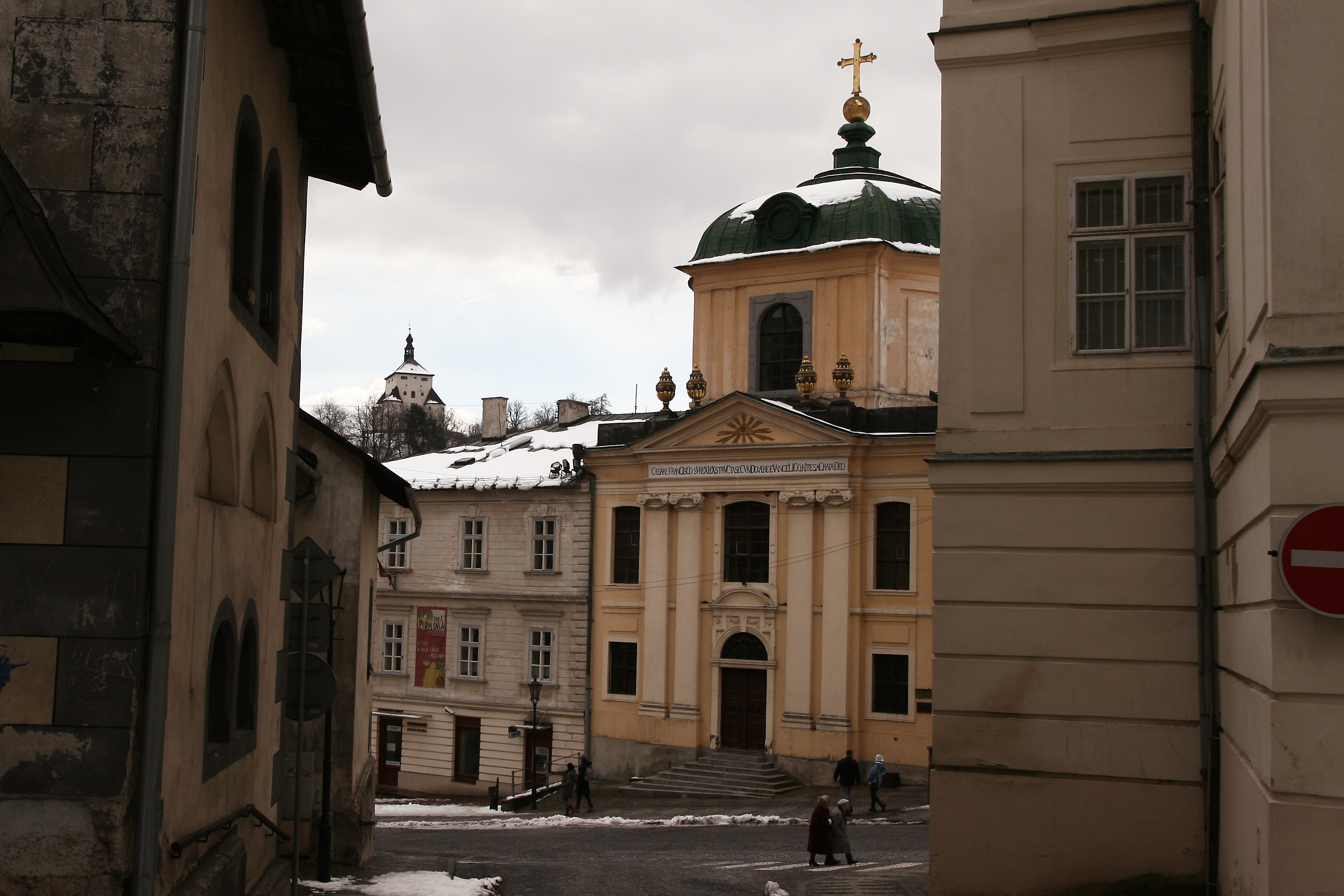 Lutheran church in Banská Štiavnica, Slovakia. Classicist building from 1796, architect J. Thaller.